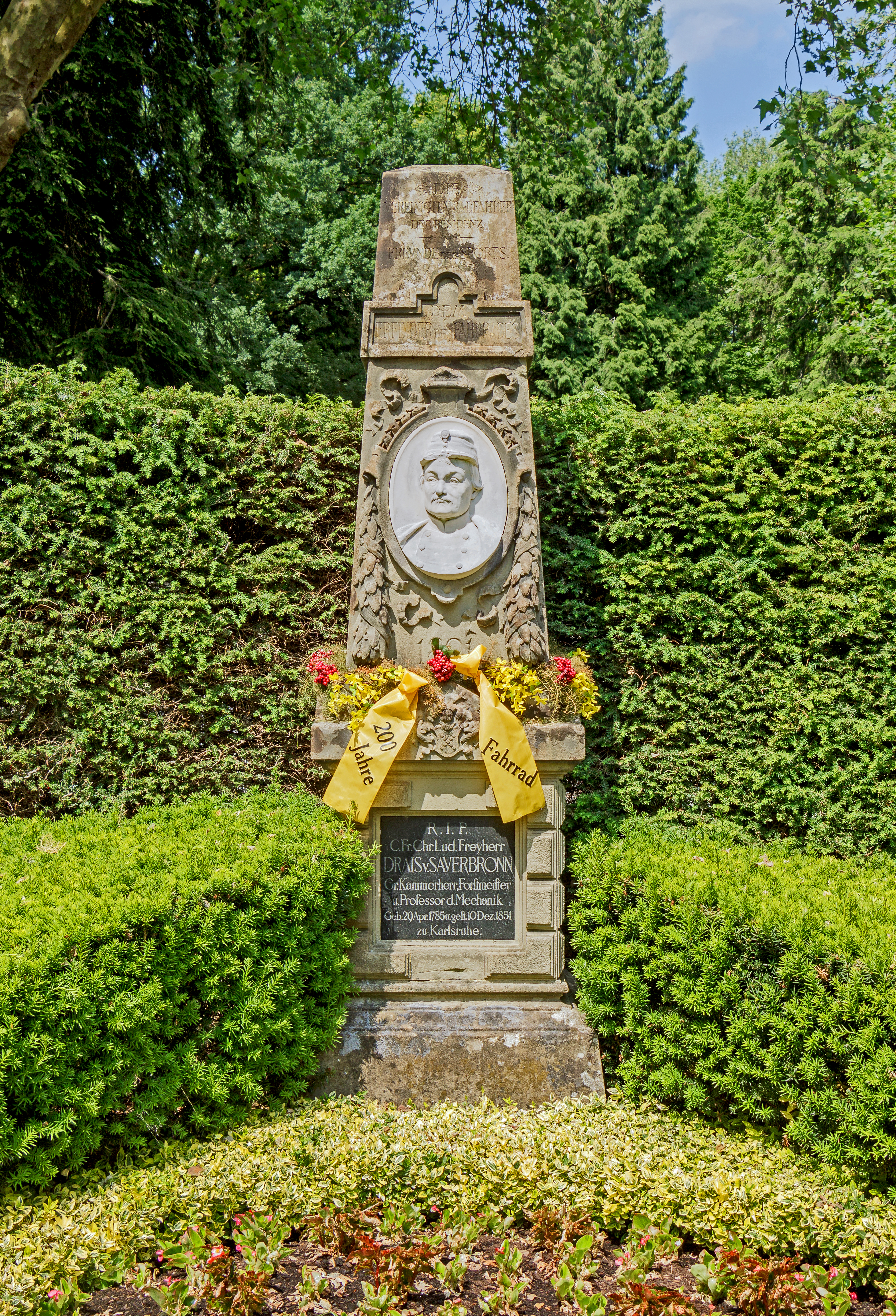 Tomb of Karl von Drais, main cemetery Karlsruhe, Germany. Inscriptions: Top: The United Cyclists of the Residence Friends of the Sport To the Inventer of the bicycle Bottom: R.I.P. C(arl) F(riedrich) Chr(istian) Lud(wig) Baron Drais of Sauerbronn Gr(and Ducal) Lord-in Waiting, Senior forestry official and Professor of Mechanical Science Born April 29, 1785 and died December 10, 1851 at Karlsruhe.